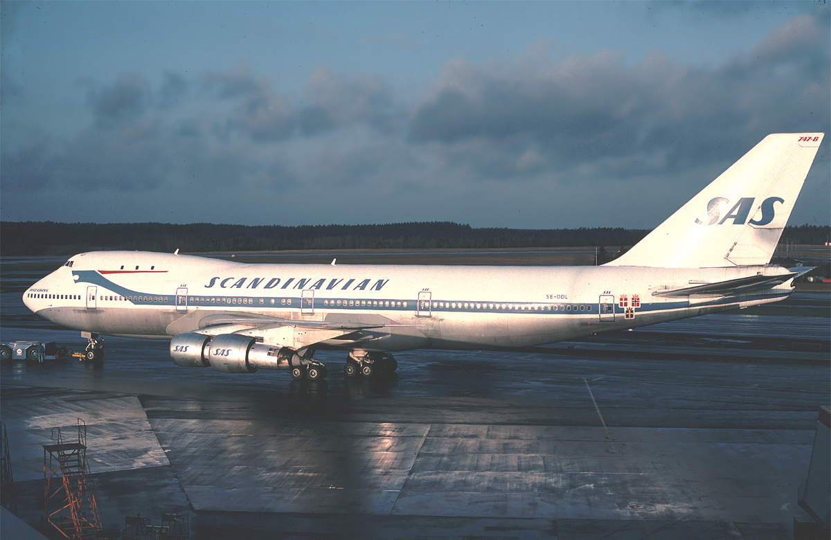 SAS Boeing 747 at Stockholm - Arlanda Airport Picture is taken by the wikipedia user himself Picture is taken by myself